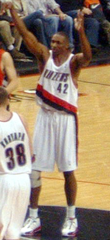 Theo Ratliff of the Portland Trail Blazers attempted a free throw in a game against the Toronto Raptors.